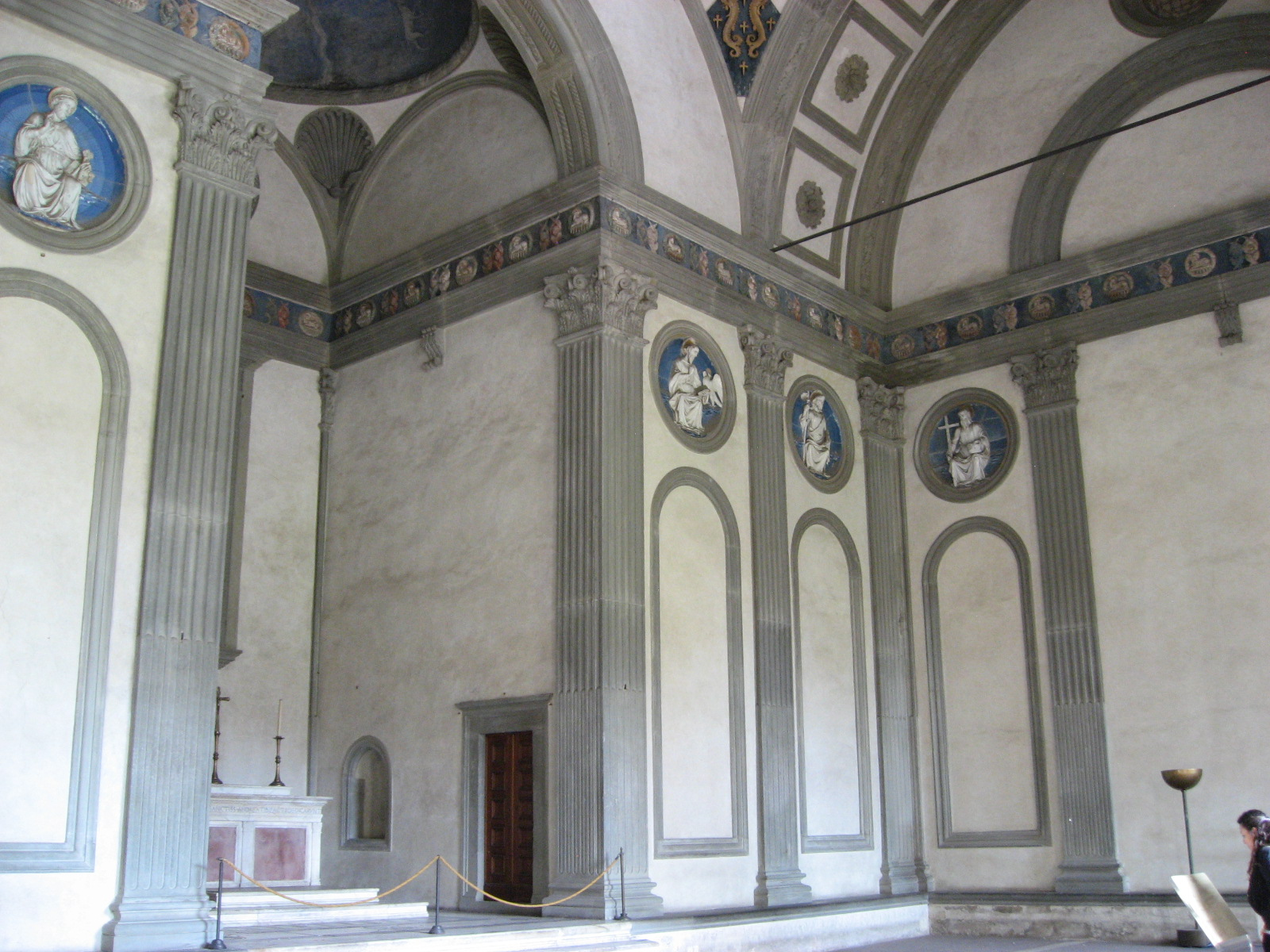 Interior of the Pazzi Chapel.